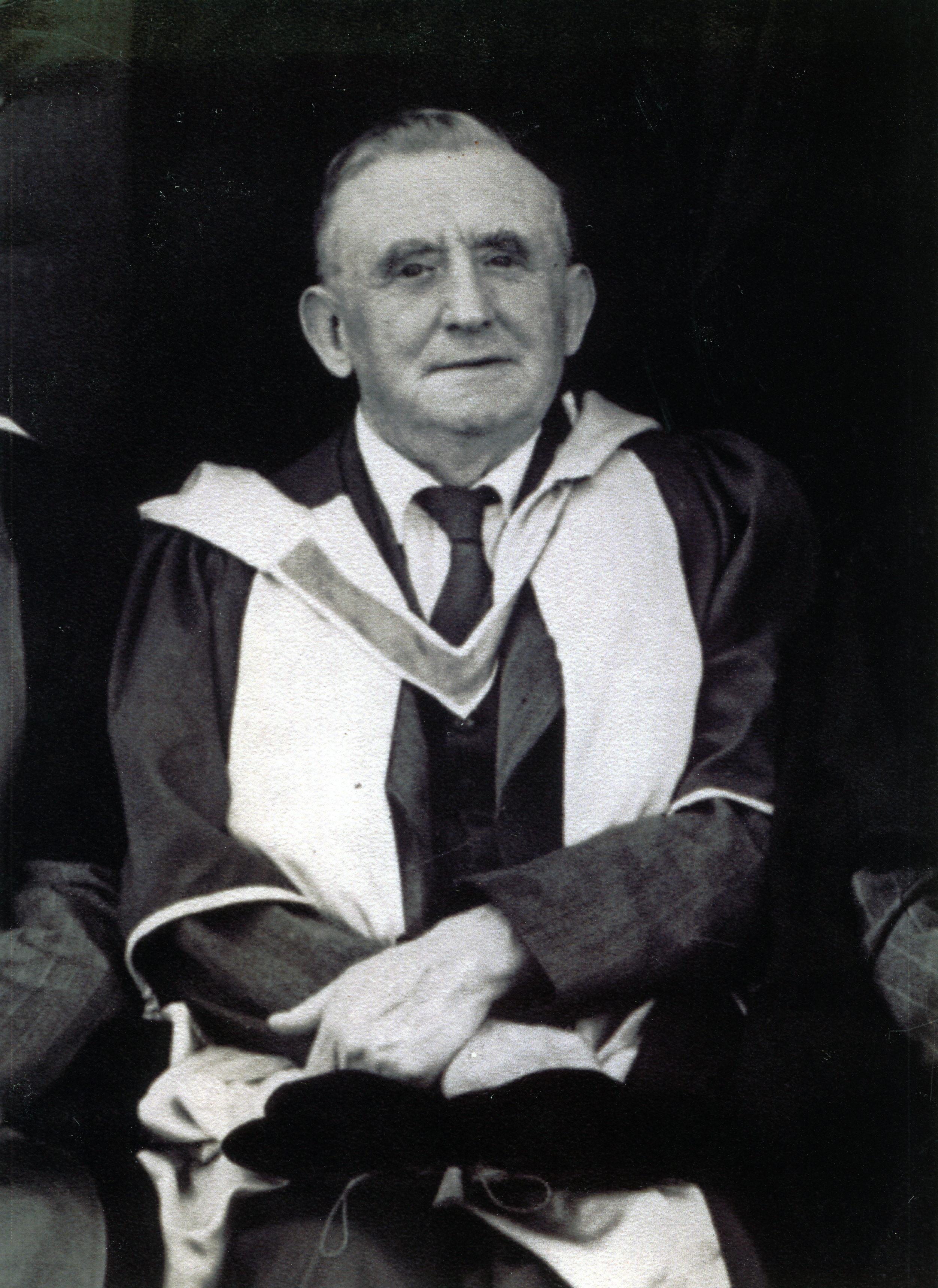 Henry Stephen. OBE, DSc., (1897-1965), organic chemist